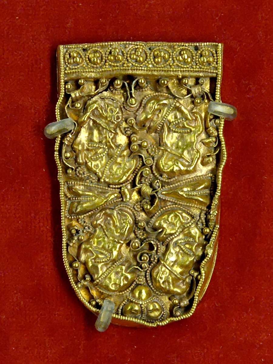 Buckle. Gold, Byzantine Empire, 7th century.